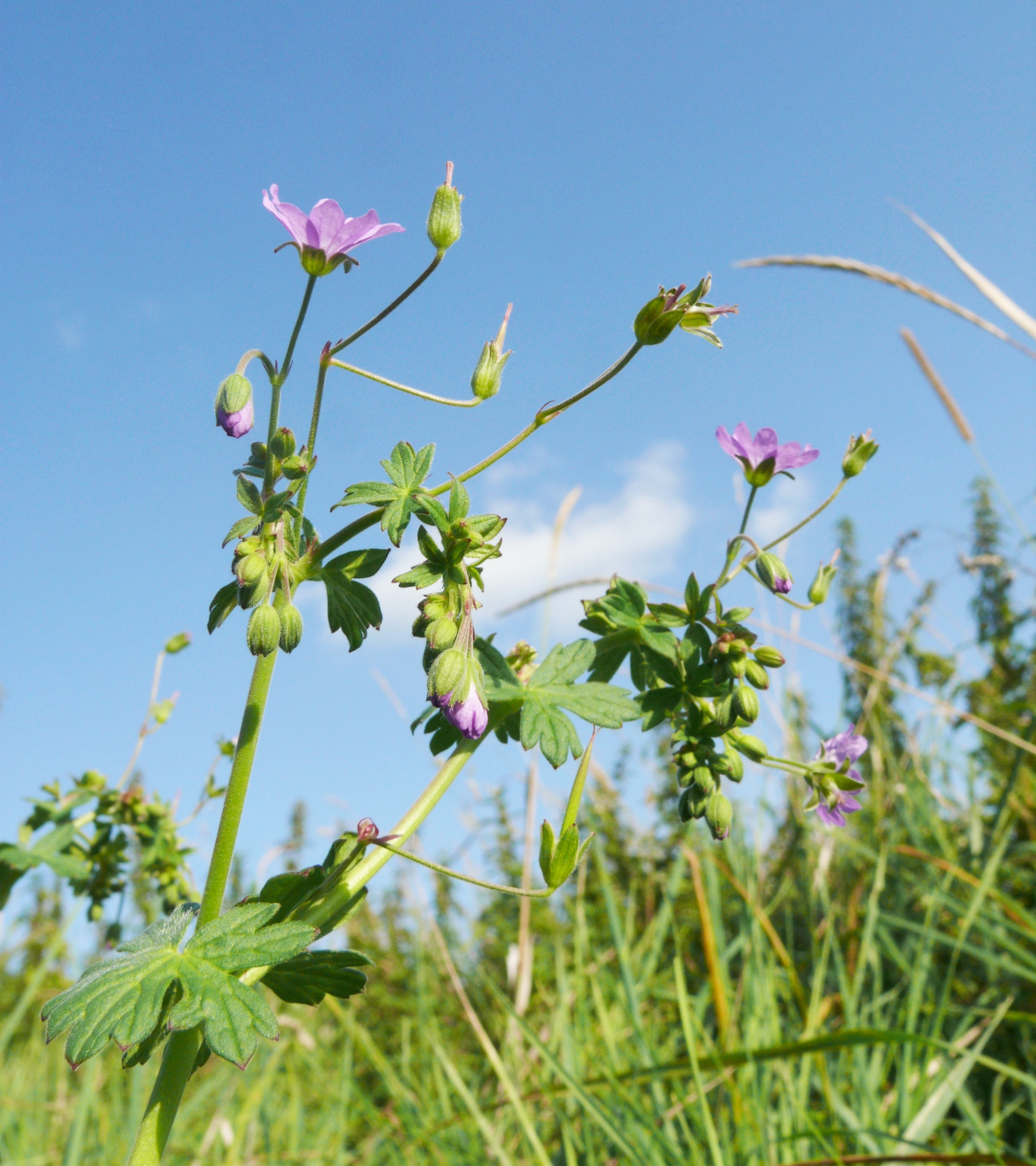 Geranium pyrenaicum, hohenlohe, Germany